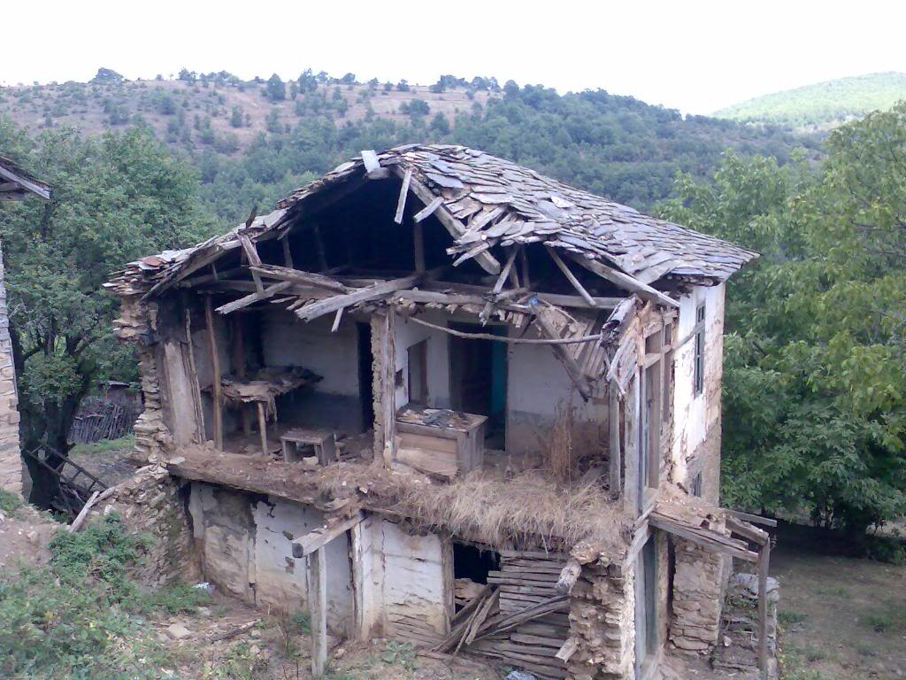 Village of Tomino selo, Poreche region, Republic of Macedonia